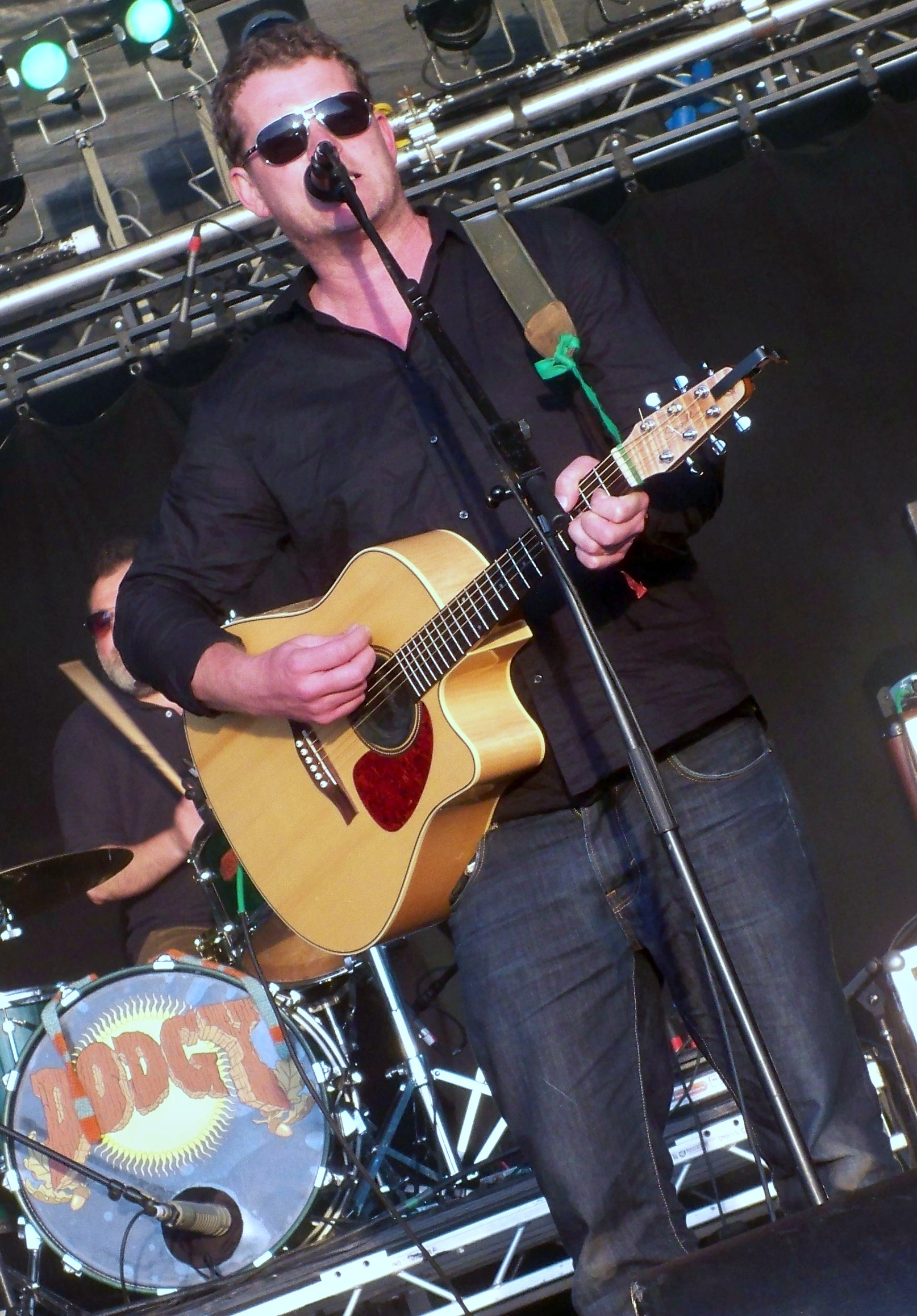 Dodgy playing acoustically at Guilfest 2012.